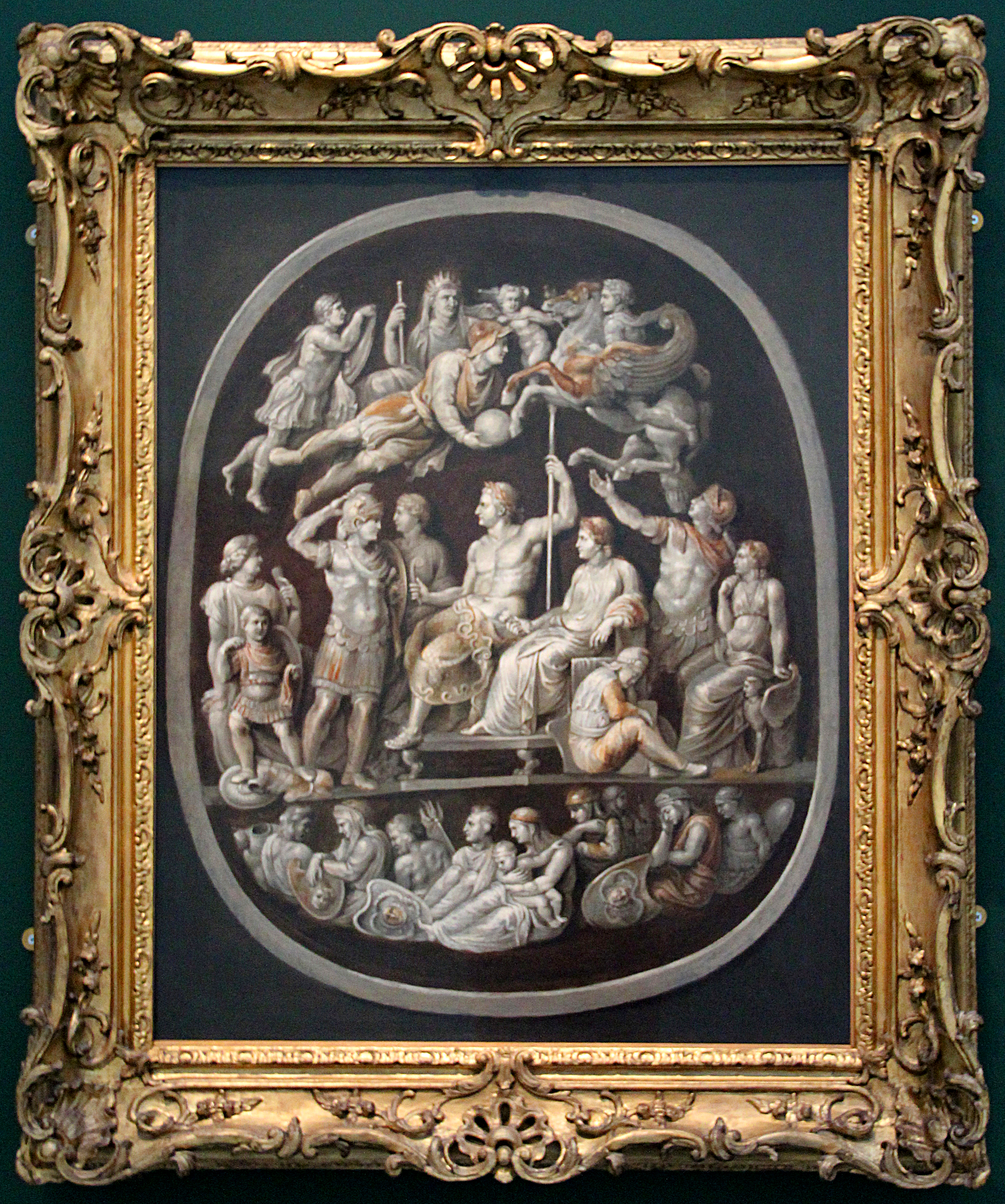 In 1620, Nicolas-Claude Fabri de Peiresc, French antiquary, discovered a large Roman cameo in the Treasury of the Sainte-Chapelle in Paris, in which he recognized a number of Roman Imperial portraits, now generally thought to represent Germanicus taking leave of his parents, the Emperor Tiberius and his mother, Livia, with other members of the Julio-Claudian family, past and present. In 1621, Peiresc suggested to Rubens to paint this.